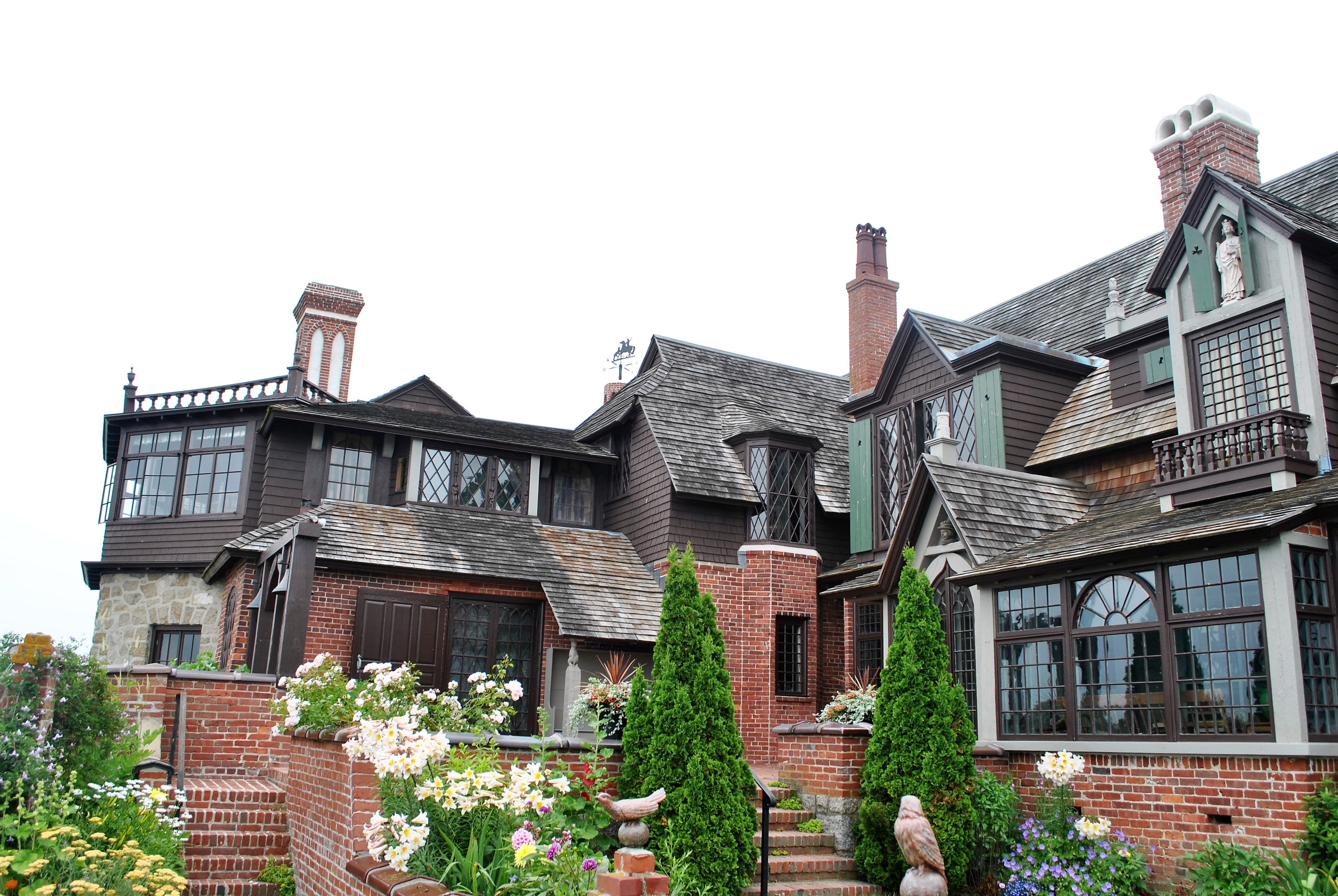 Image originally published in Queer Places: Retracing the Steps of LGBTQ people around the World Authored by Elisa Rolle